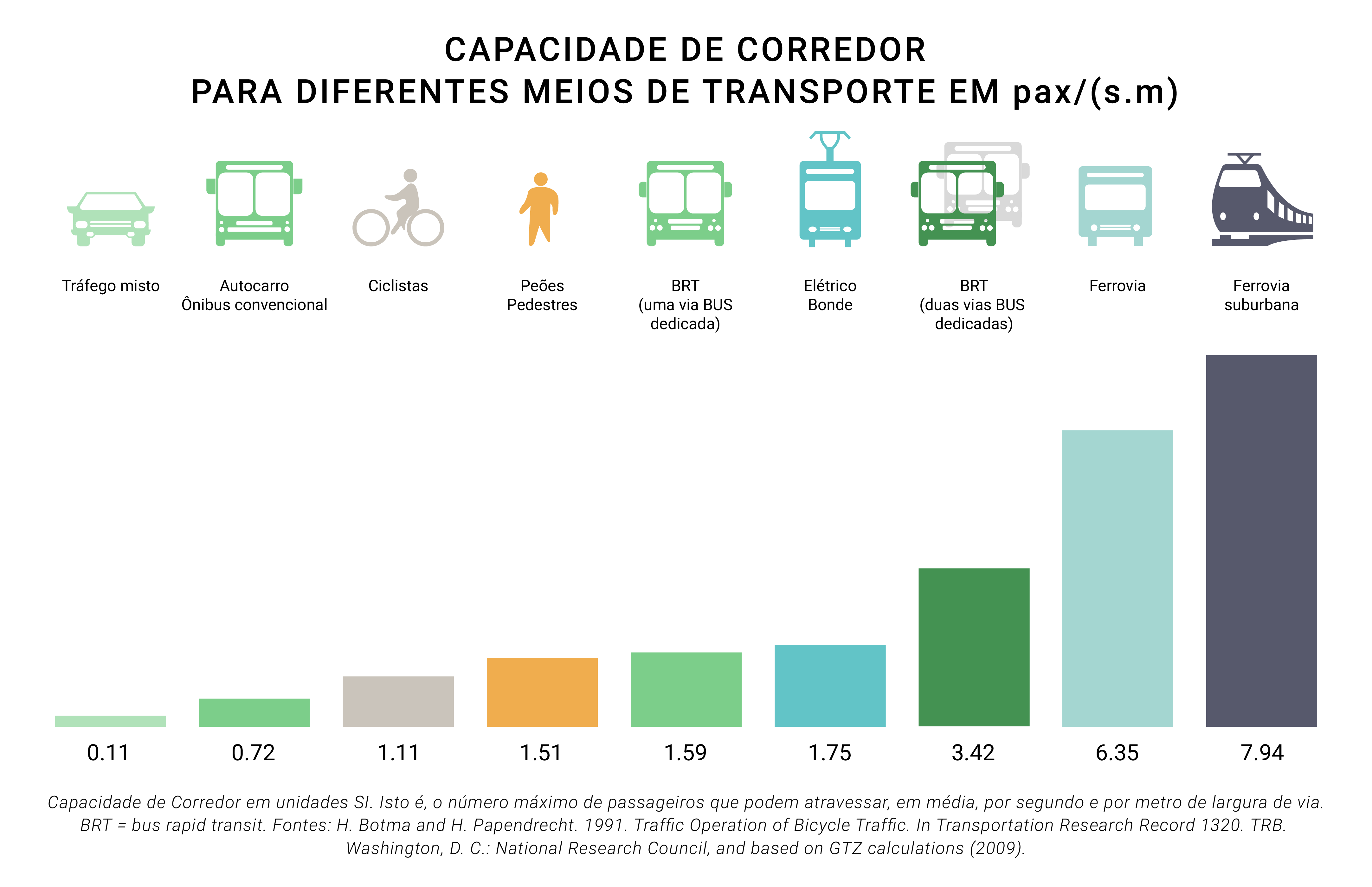 Corridor Capacity (legend in Portuguese)